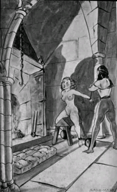 Image is S/M sexuality